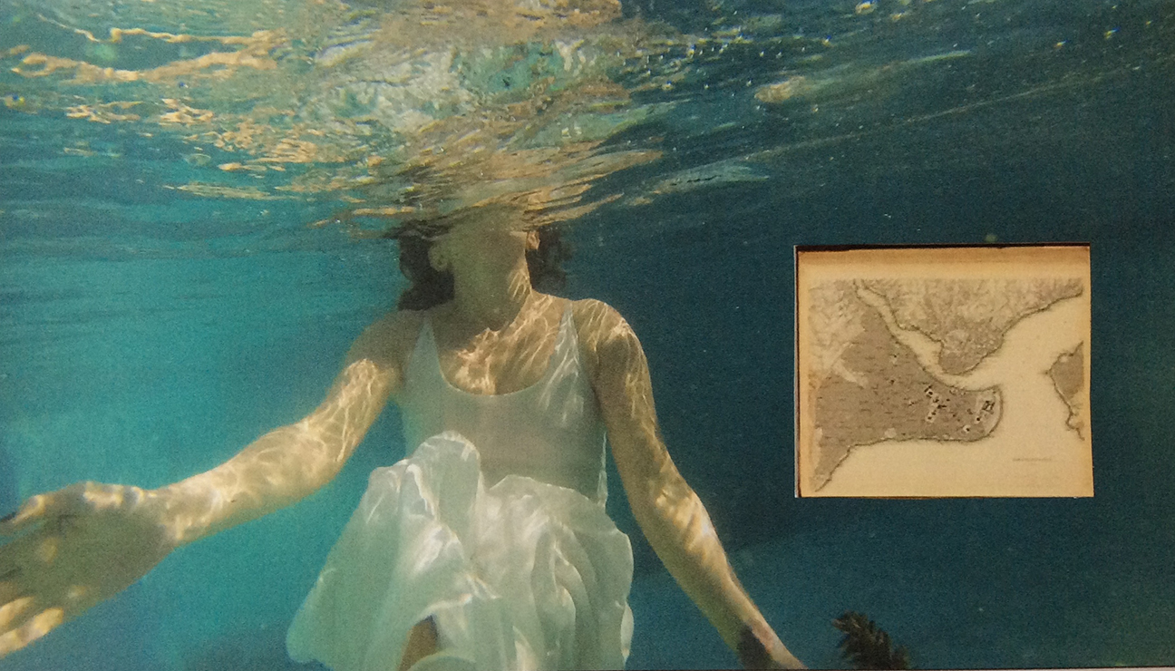 Video still and collage